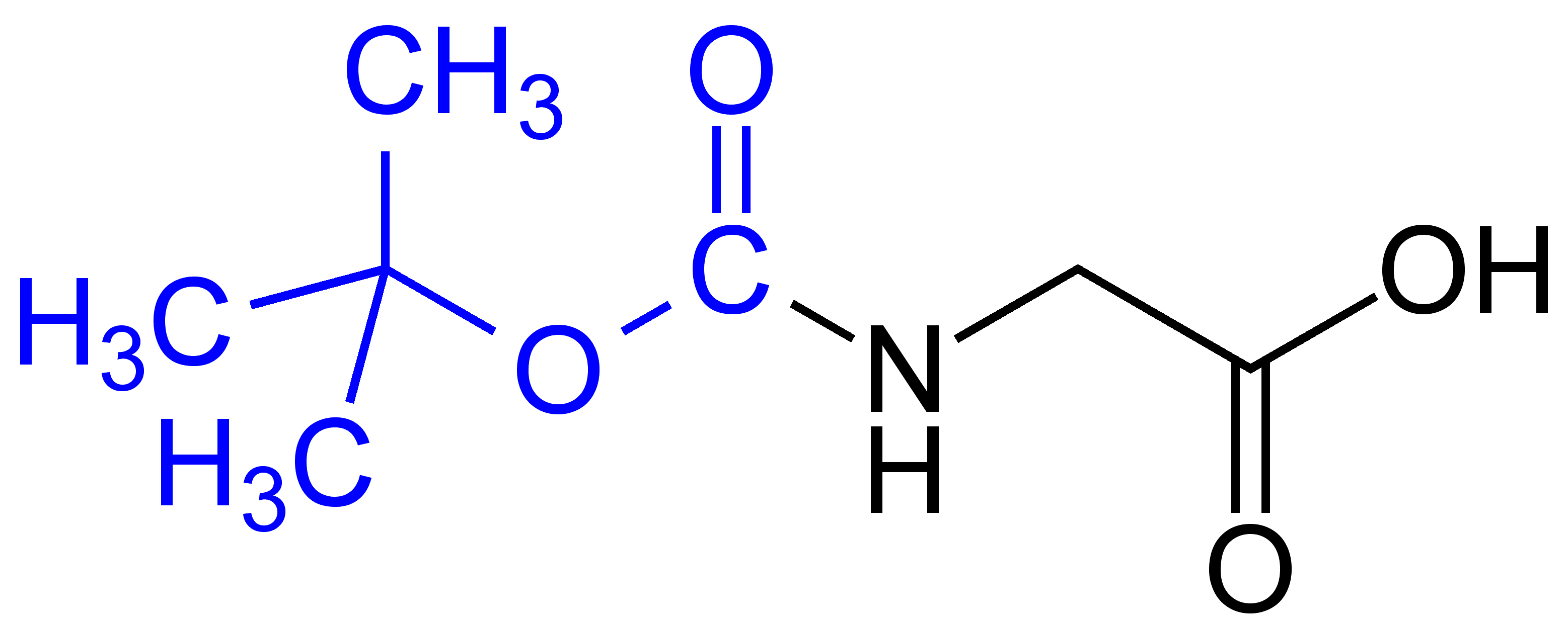 N-tert-Butoxycarbonyl_protected_Glycine_Structural_Formulae